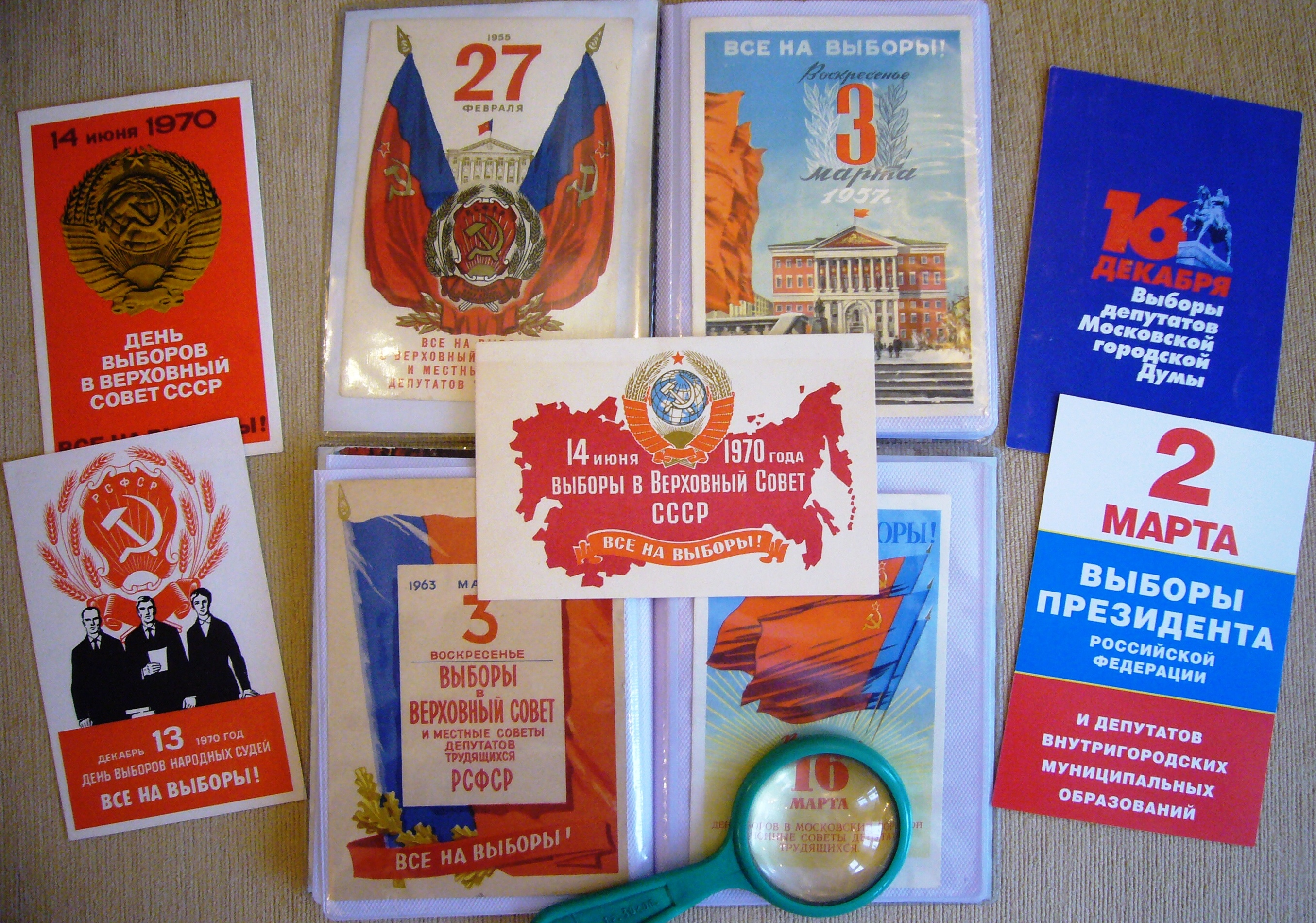 A view of a collection of USSR and Russian voter invitation cards.